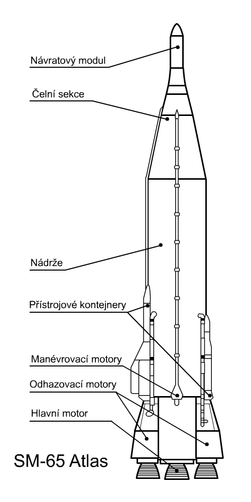 Scheme SM-65 Atlas with czech description.